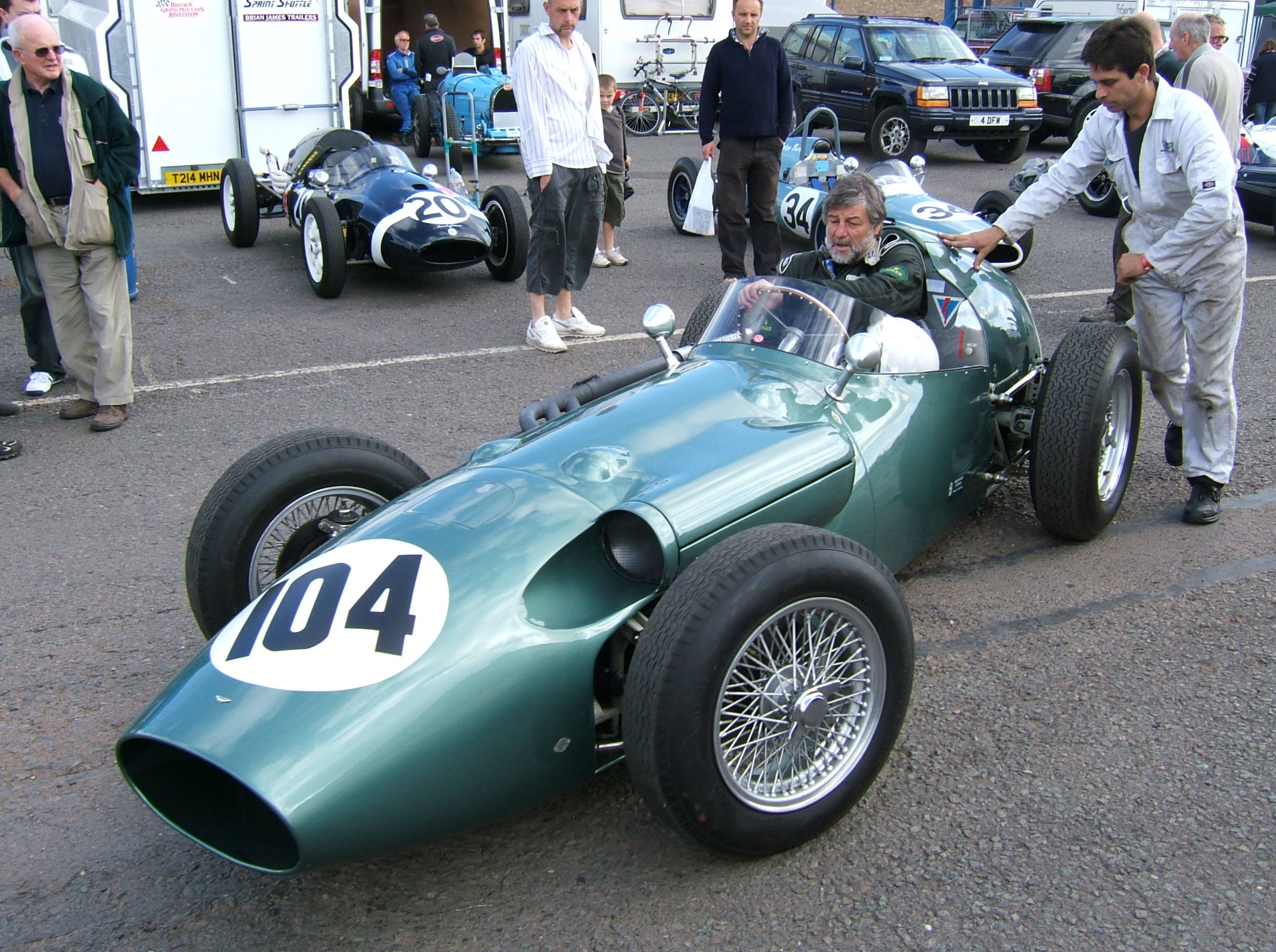 An Aston Martin DBR4 Formula One car receives a helping hand to get started in the paddock of the VSCC SeeRed race meeting, Donington Park, September 2007.